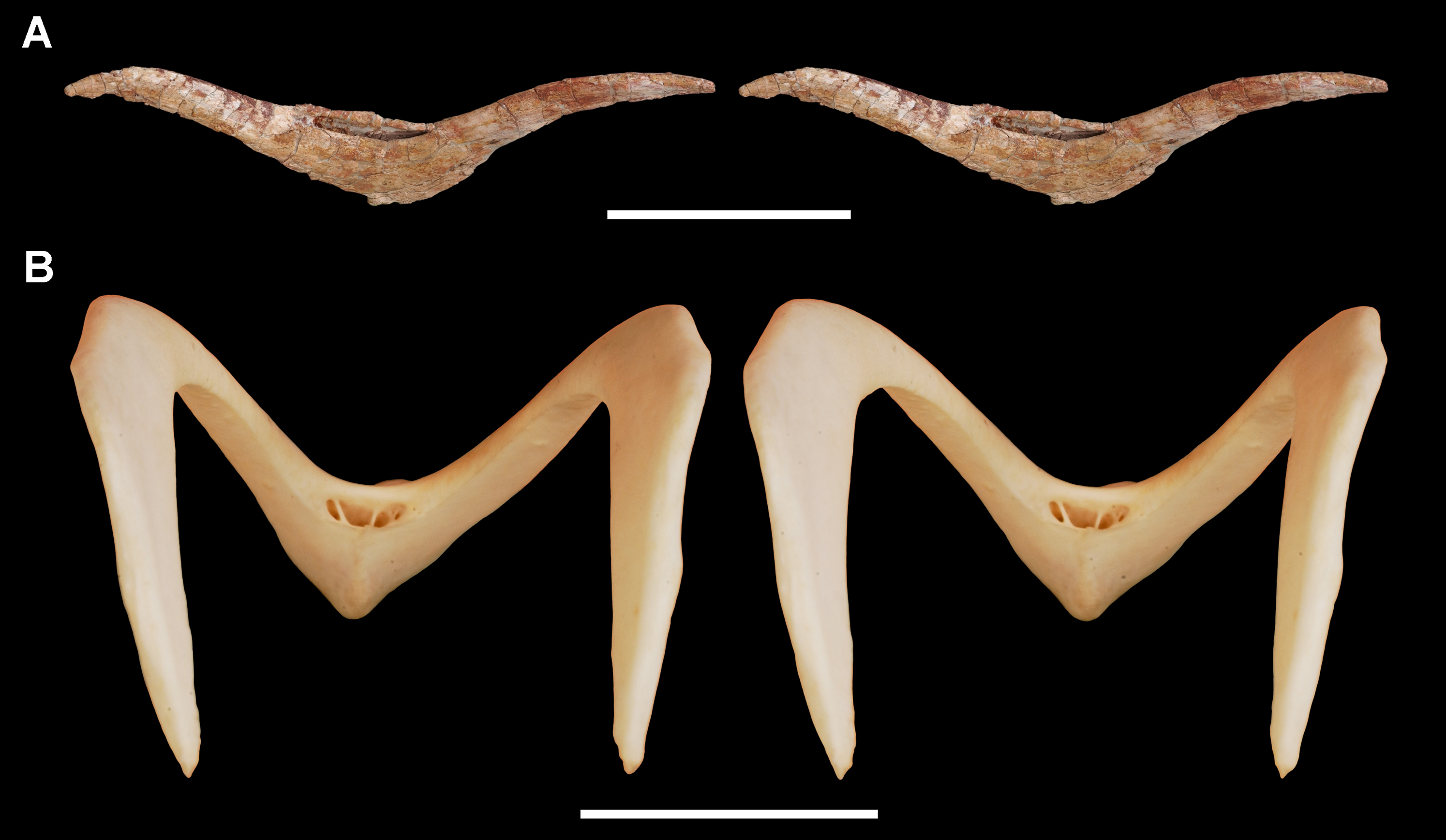 Original caption: "Figure 12. Furcula of the theropod Aerosteon riocoloradensis and magpie goose Anseranas semiplamata. (A)-Stereopairs of the furcula of Aerosteon riocoloradensis (MCNA-PV-3137) in posterodorsal view. (B)-Stereopairs of the furcula of Anseranas semiplamata (FMNH 338808) in posterodorsal view. Scale bars equal 10 cm in A and 2 cm in B."